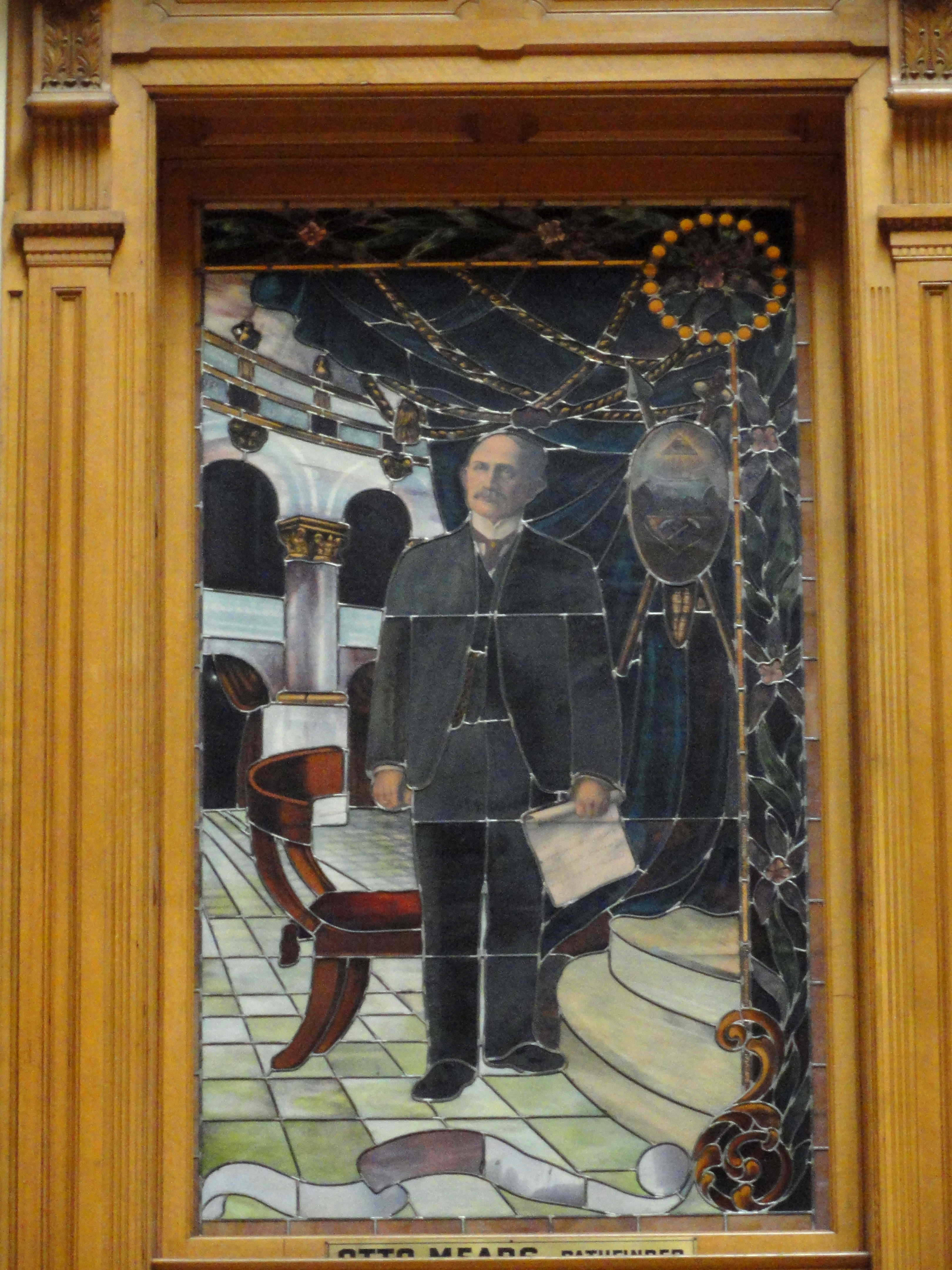 Stained glass window in the Colorado State Capitol in Denver, Colorado, USA.